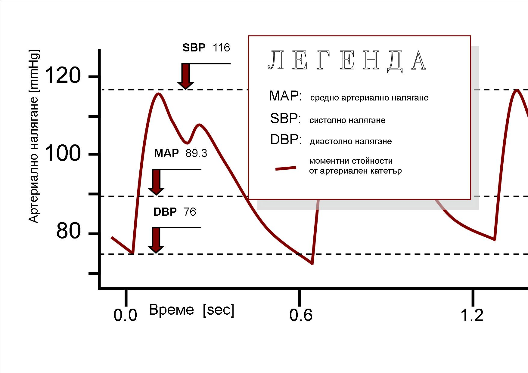 Example of reading/graph from arteral line with indicated MAP, DBP and SBP